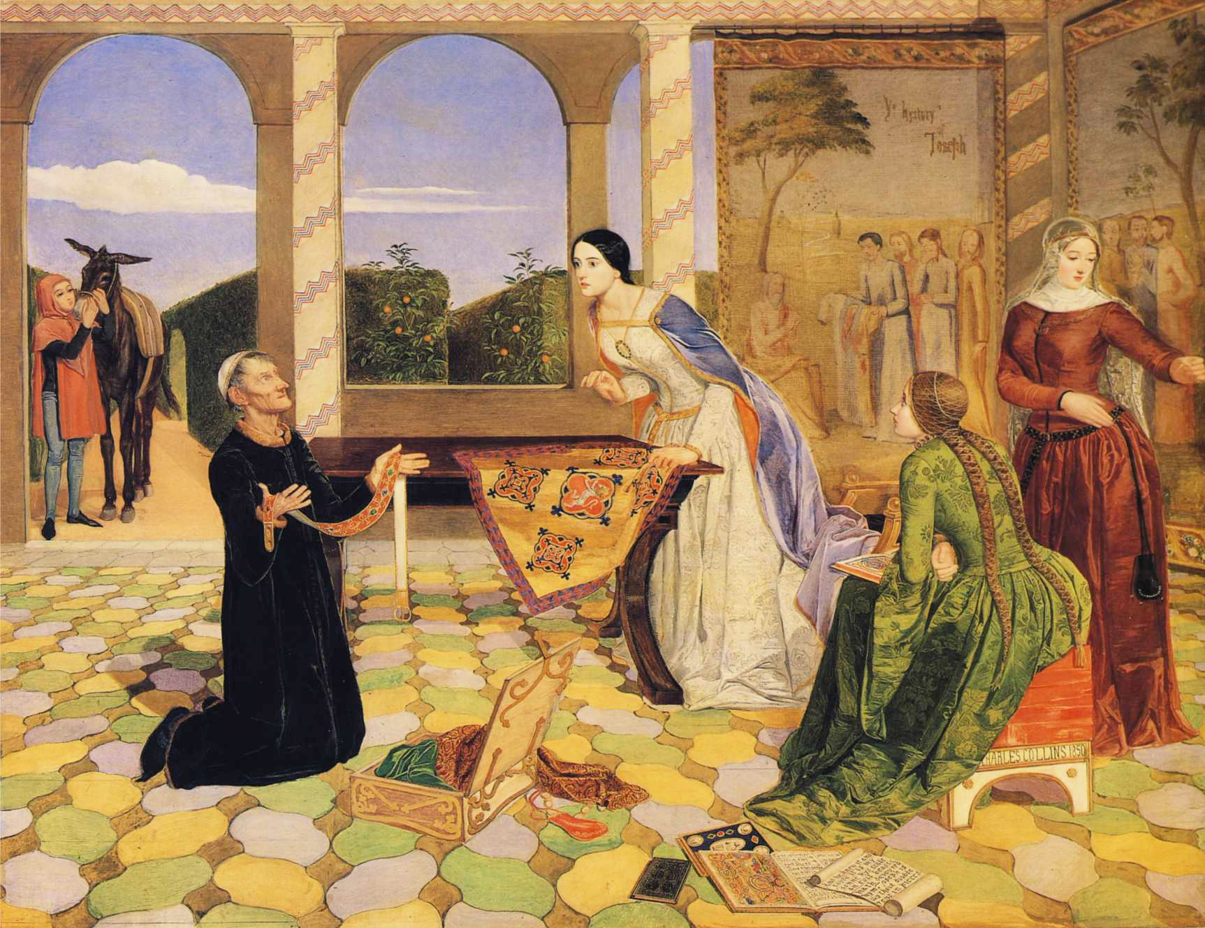 Berengaria’s alarm for the safety of her husband, Richard the Lionheart